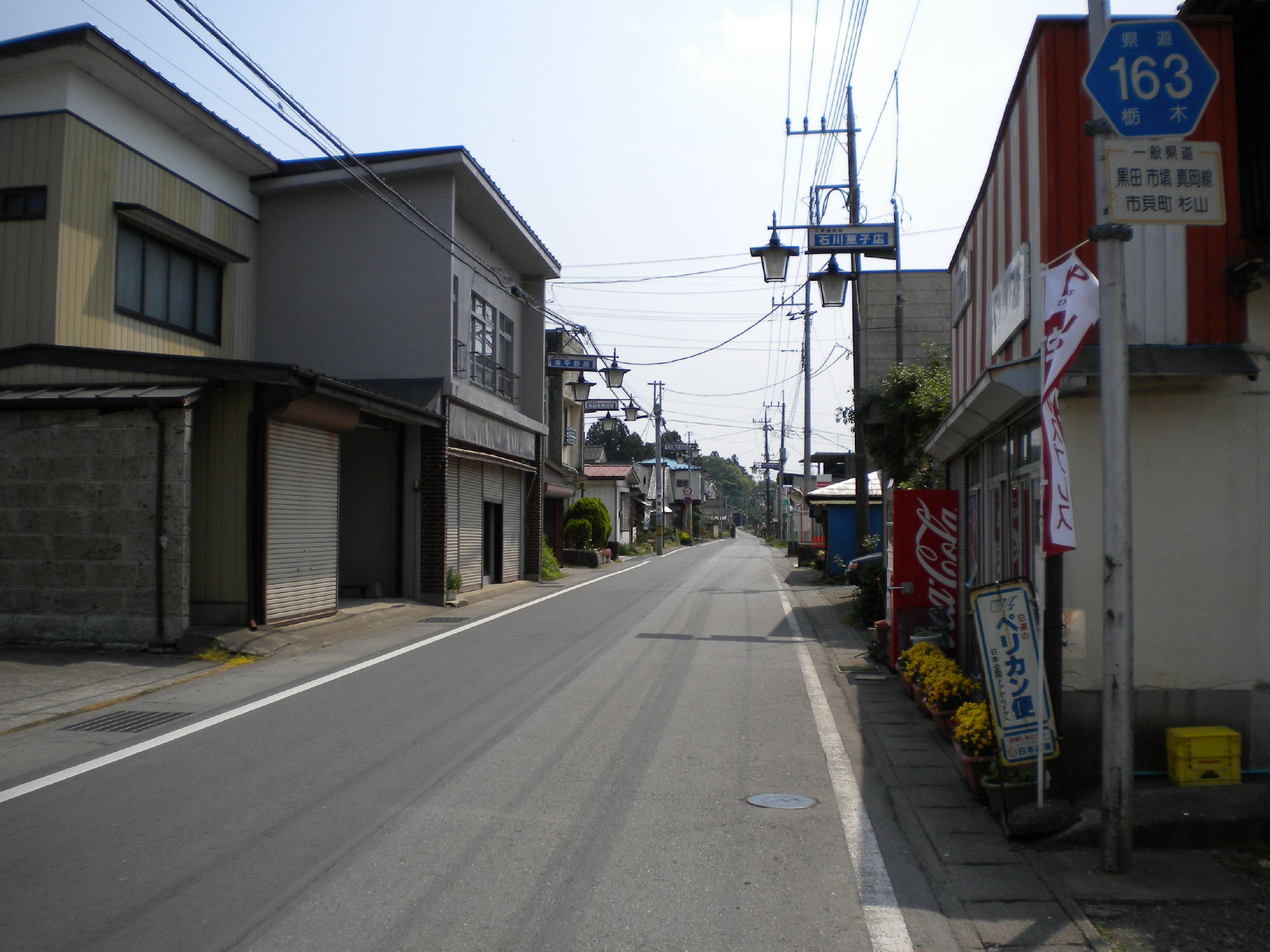 The Tochigi Prefectural Road Route 163 in Sugiyama, Ichikai Town